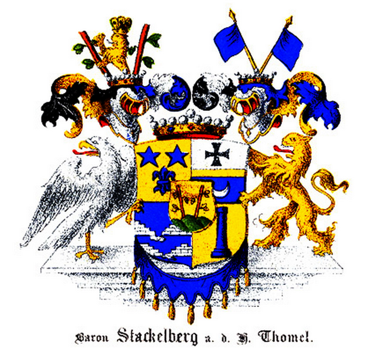 Coat of arms of Stackelberg family. House of Thomel.